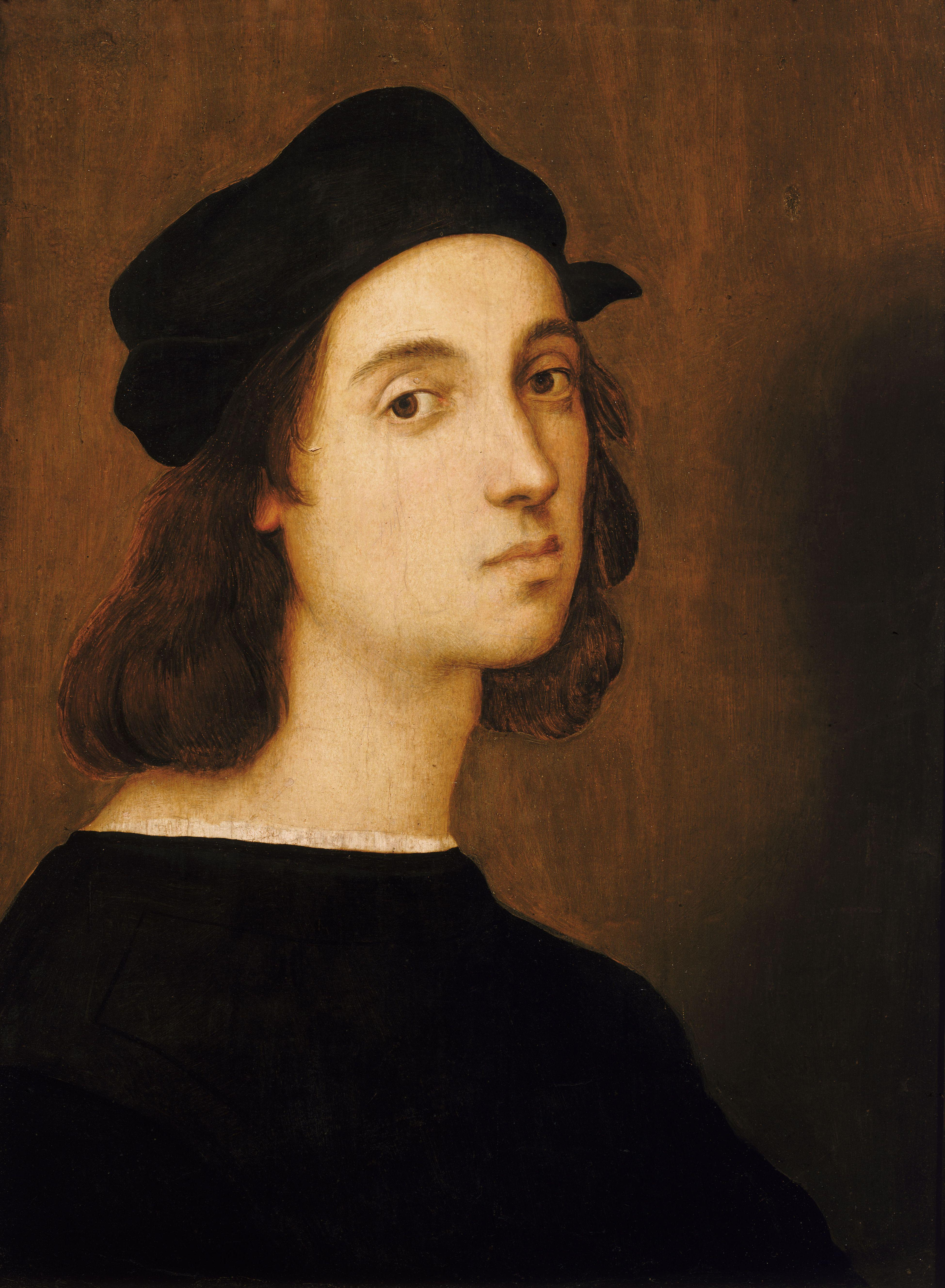 Self-portrait of Raphael, aged approximately 23